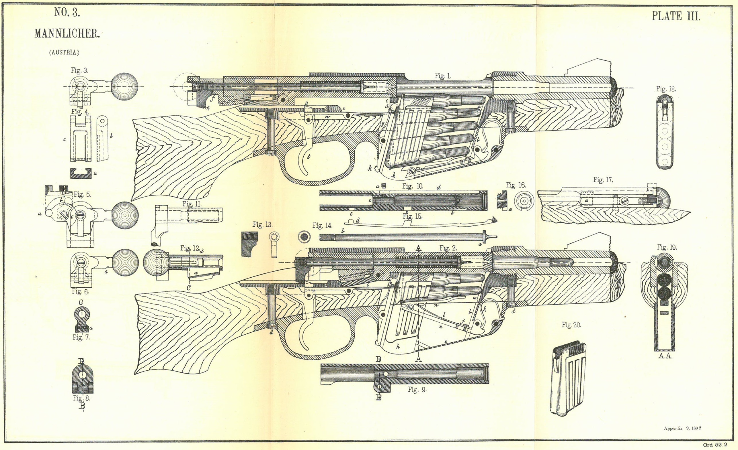 Annual Report of the Chief of Ordnance to the Secretary of War from the year 1892.